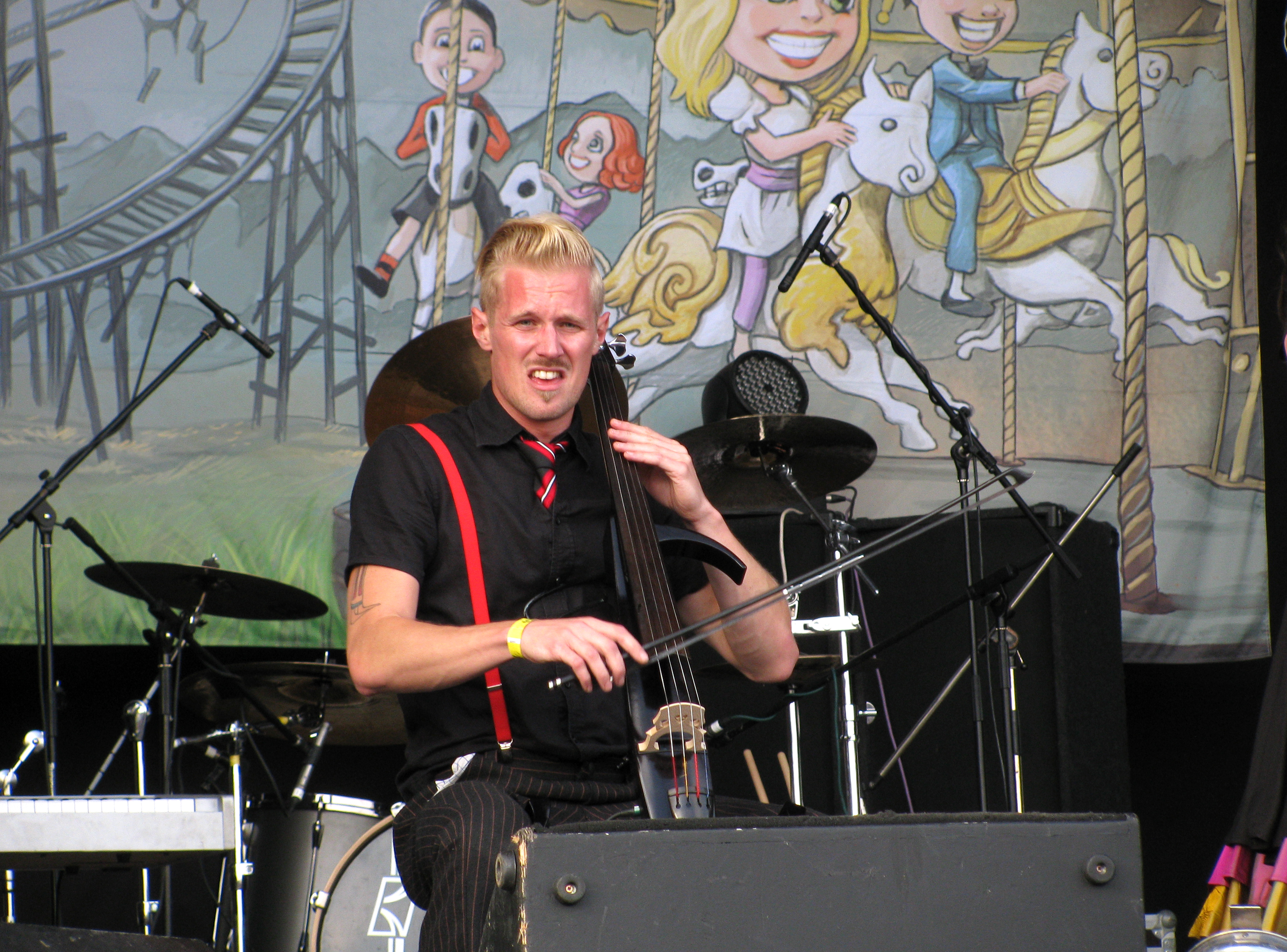 Diablo Swing Orchestra playing at Global East Rock Festival 2010